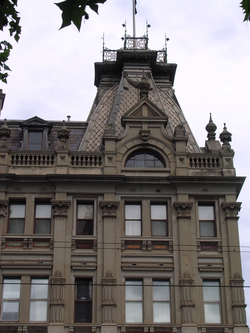 Shamrock Hotel, Bendigo